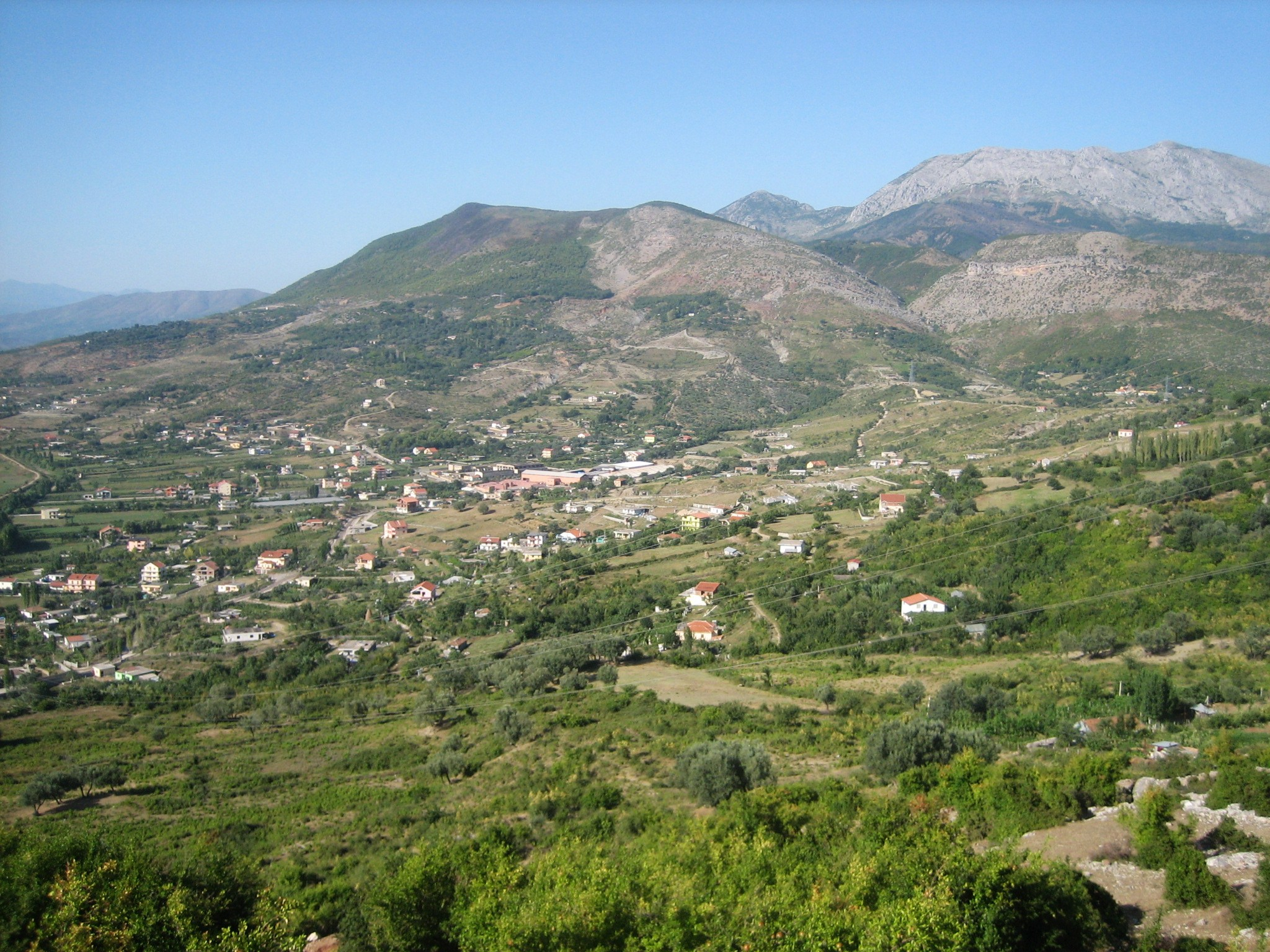 View from the top of the Lezhë Castle hill in Lezhë, Albania